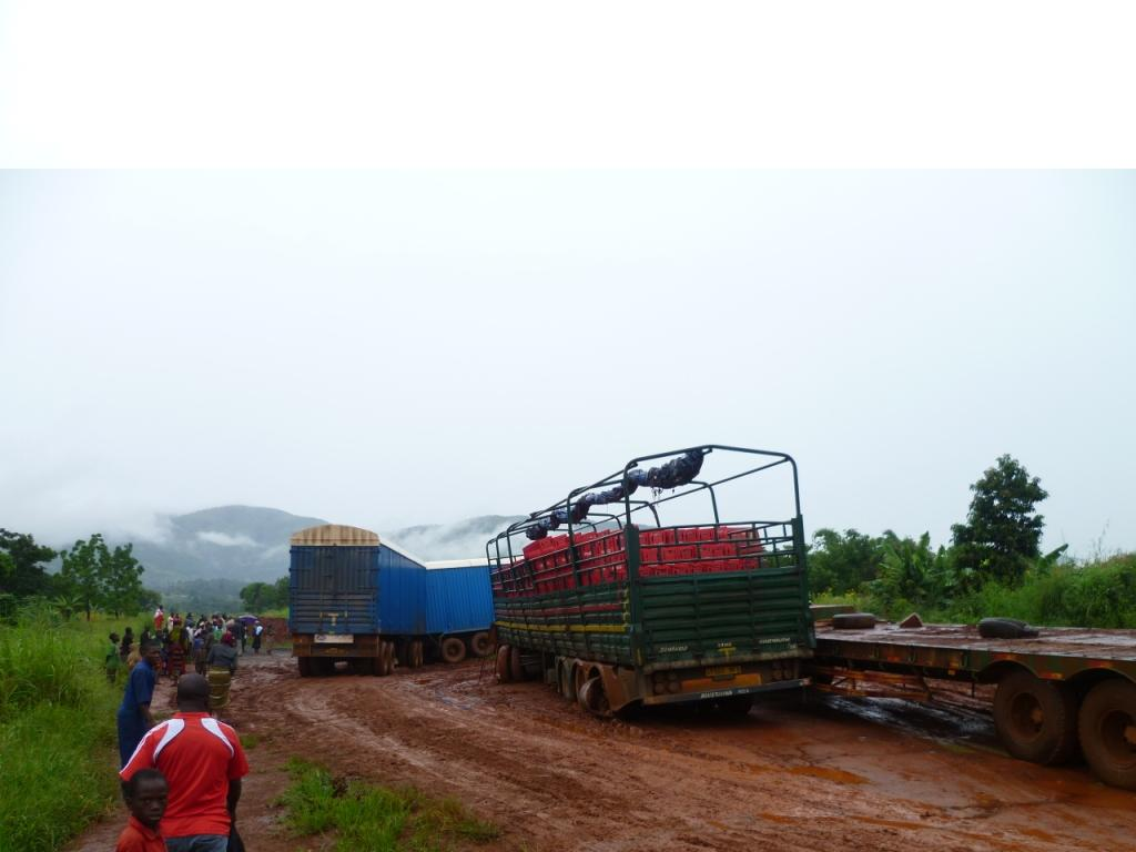 Travel Tanzania Road to Mbamba Bay 2012